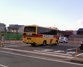 This is a picture of Nikkori Bus.